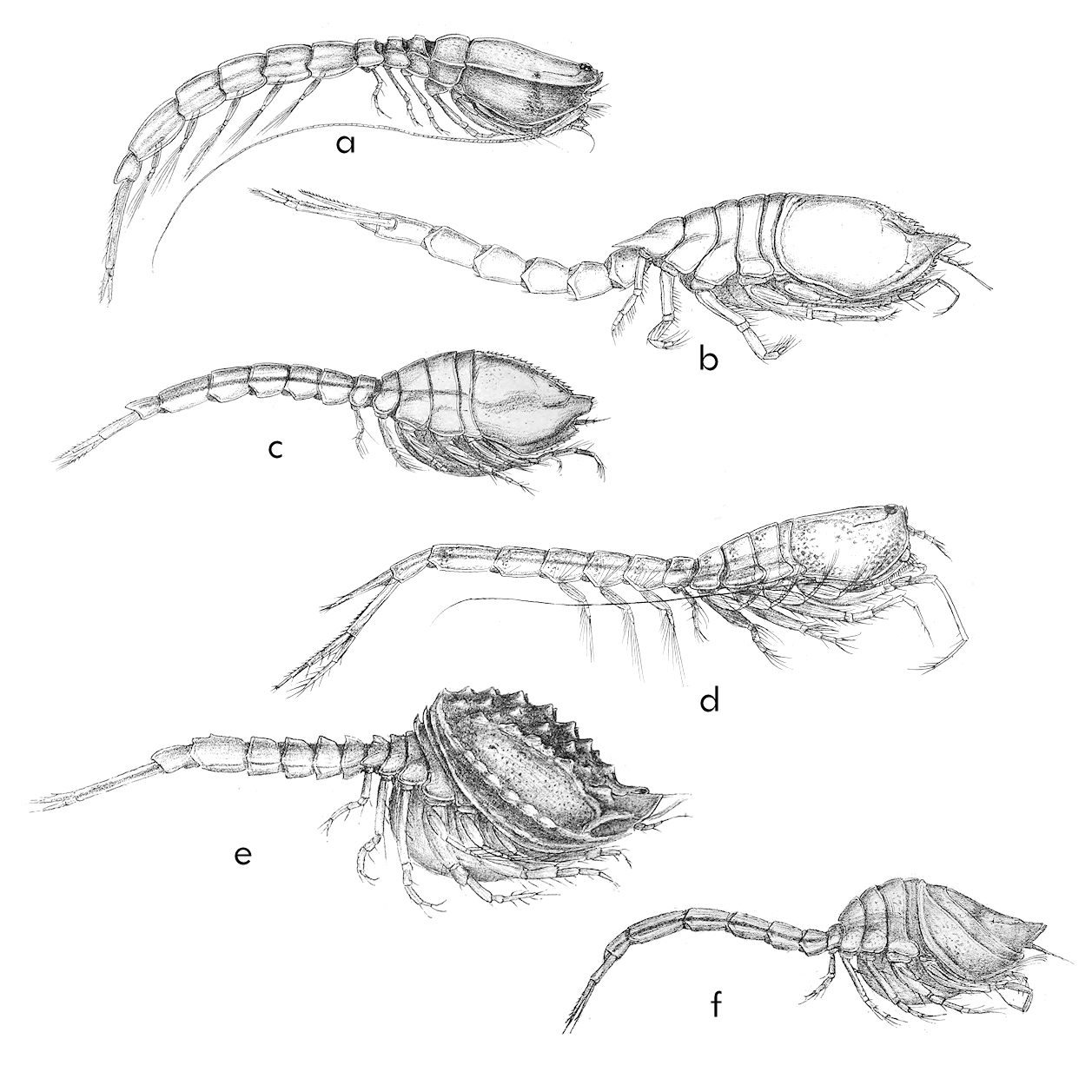 Specimen of six out of the eight extant families of Cumacea.